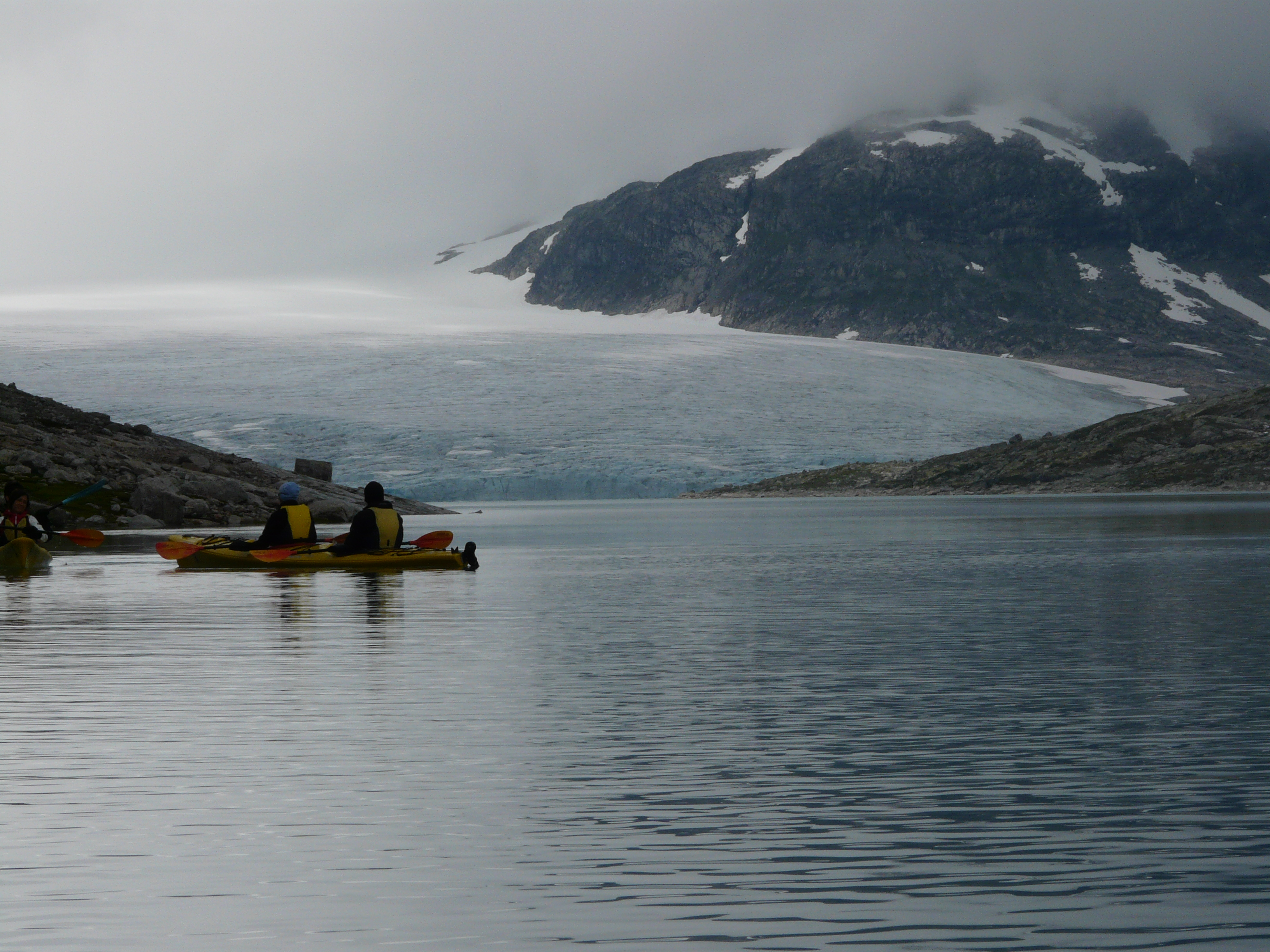 Austdalsbreen glacier by Styggevatnet